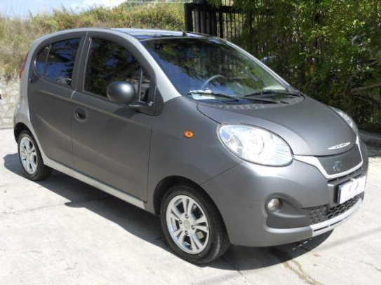 DR Zero 1.0 bifuel